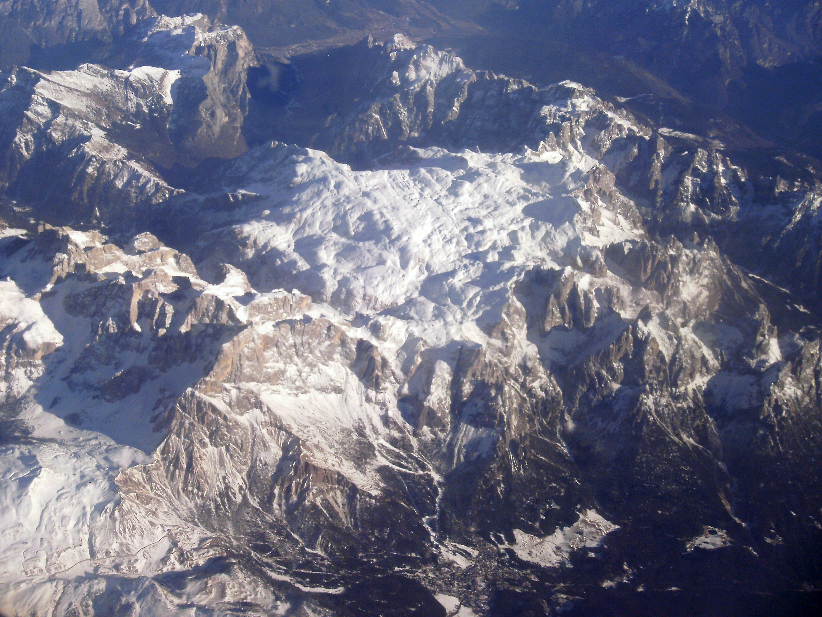 Pala, Passo di Rolle, San Martino di Castrozza Air